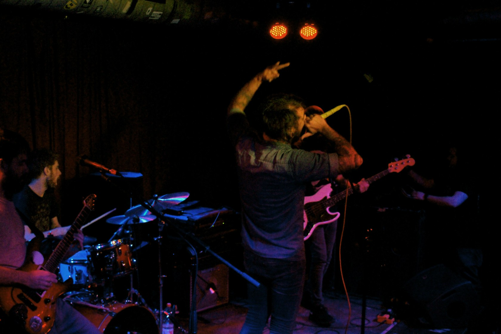 Ash Is A Robot playing Keller Klub in Stuttgart on their Tres Lunas Tour in Mai 2016.